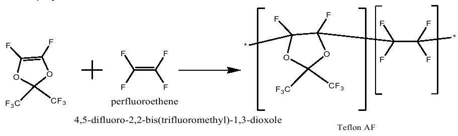 Teflon AF chemical formula